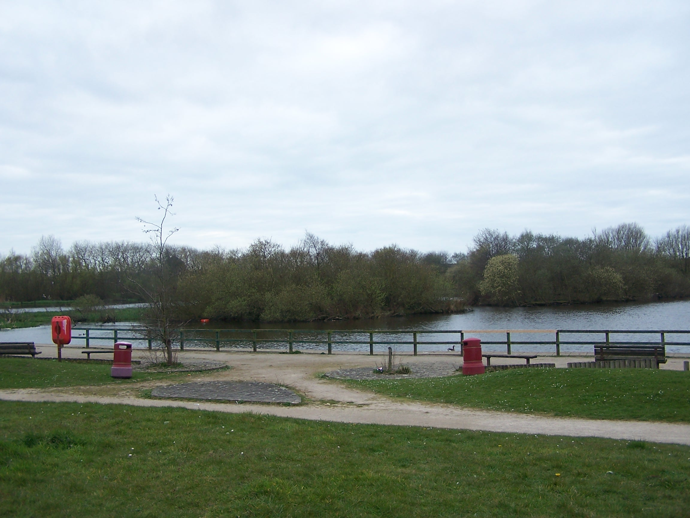 View of part of Kincraig Lake, Kincraig Ecological Reserve. Photo taken by ♦Tangerines BFC ♦·Talk 04:03, 14 April 2007 (UTC) 11 on April, 2007